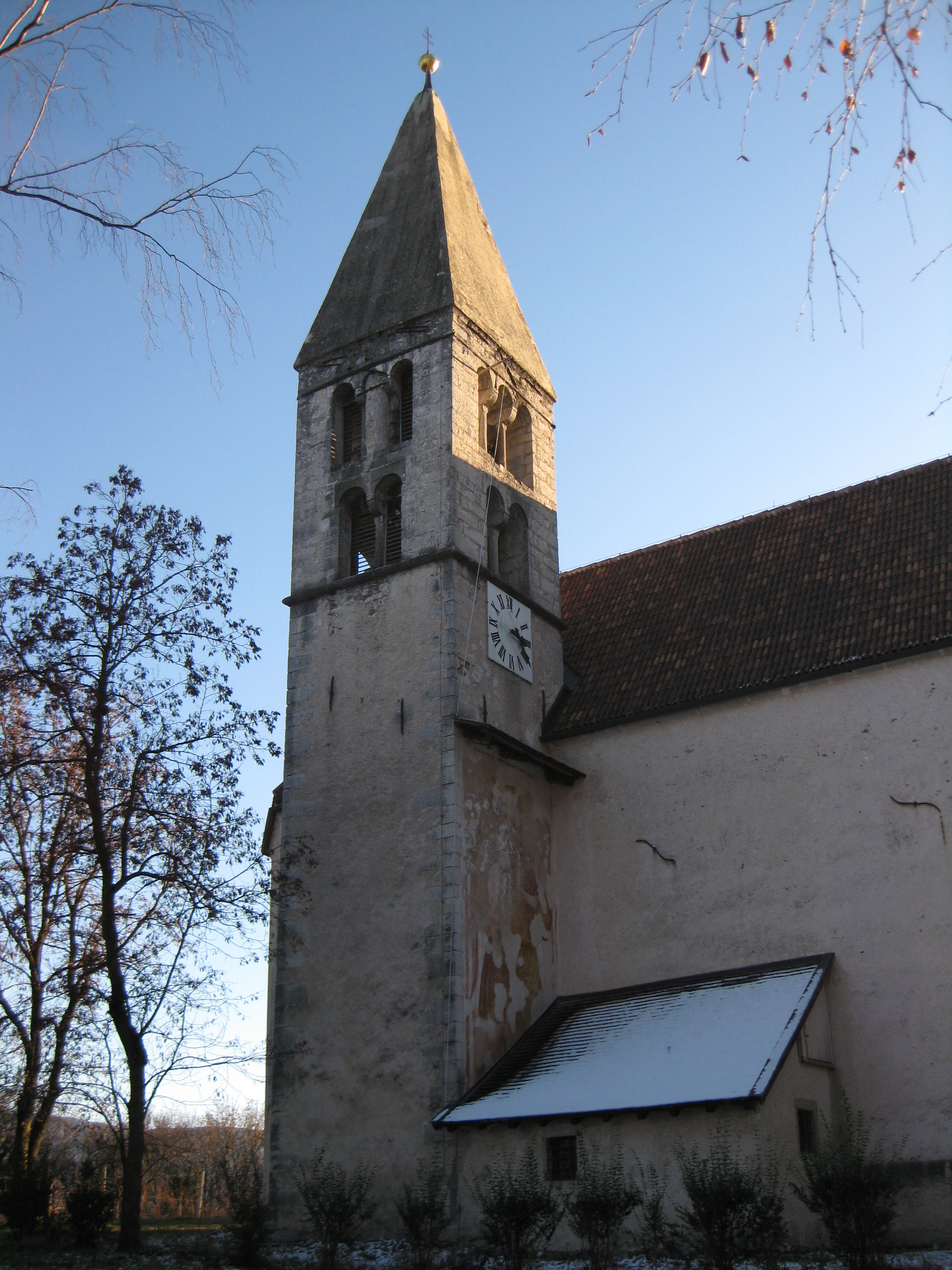 The spire of St George in Graun